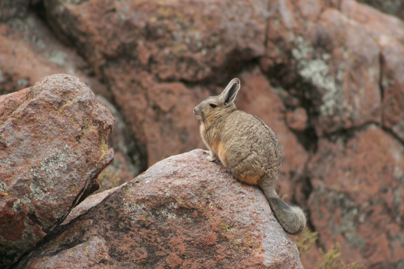 Lagidium viscacia Appearing to be something like a rabbit-chinchilla hybrid, though totally unrelated to a rabbit. There were two of these critters just off the road, far away from the nearest town. They seemed to be nearly as curious about us as we were about them.